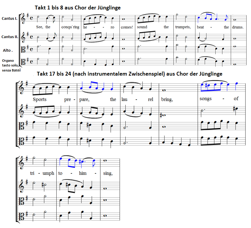 A few bars from Händels Joshua and the song Tochter Zion, freue dich are compared